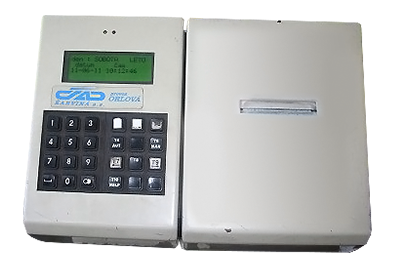 This is device for Bus. It is a cash register.